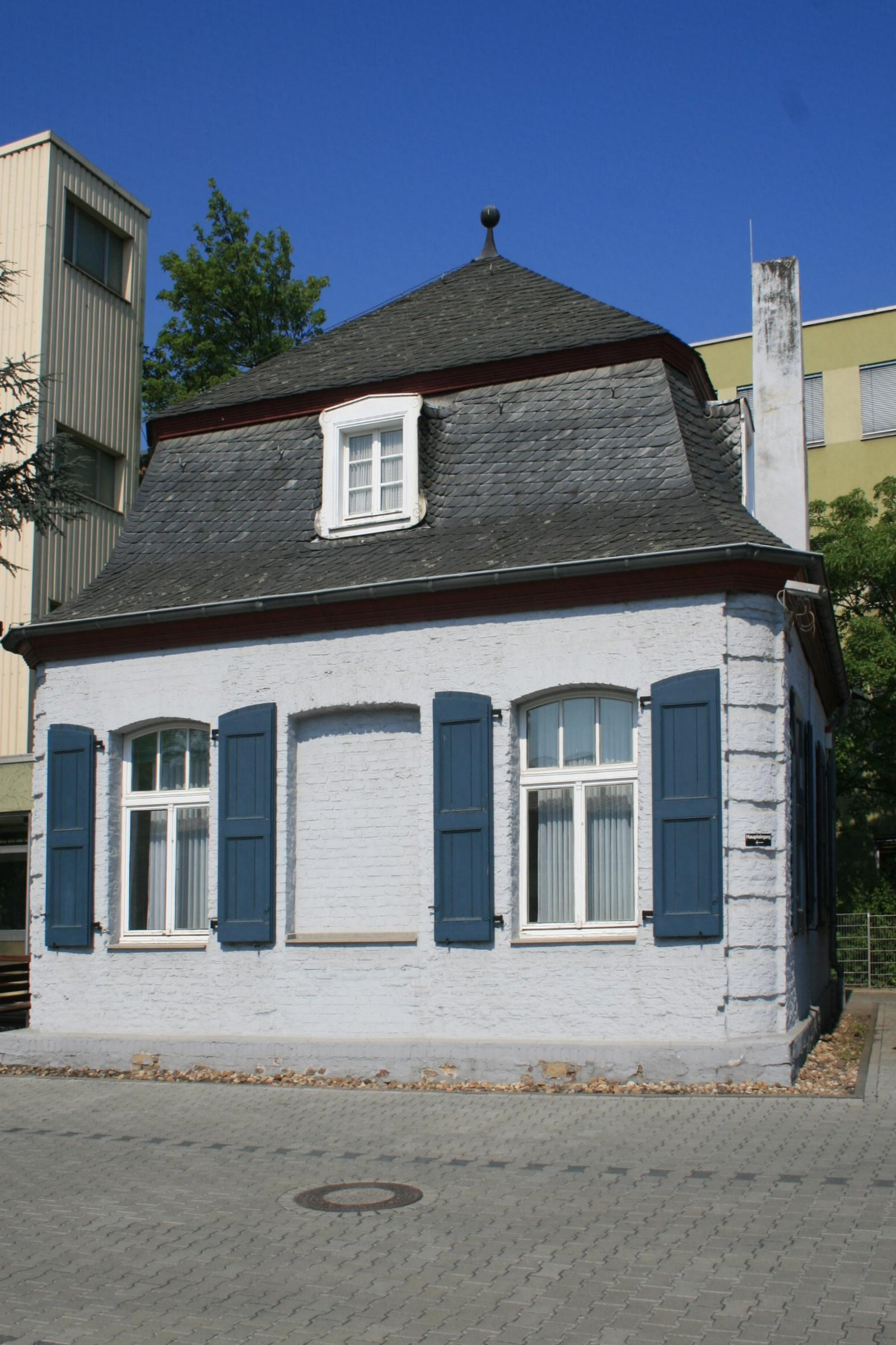 Cultural heritage monument No. 1/002 in Düren